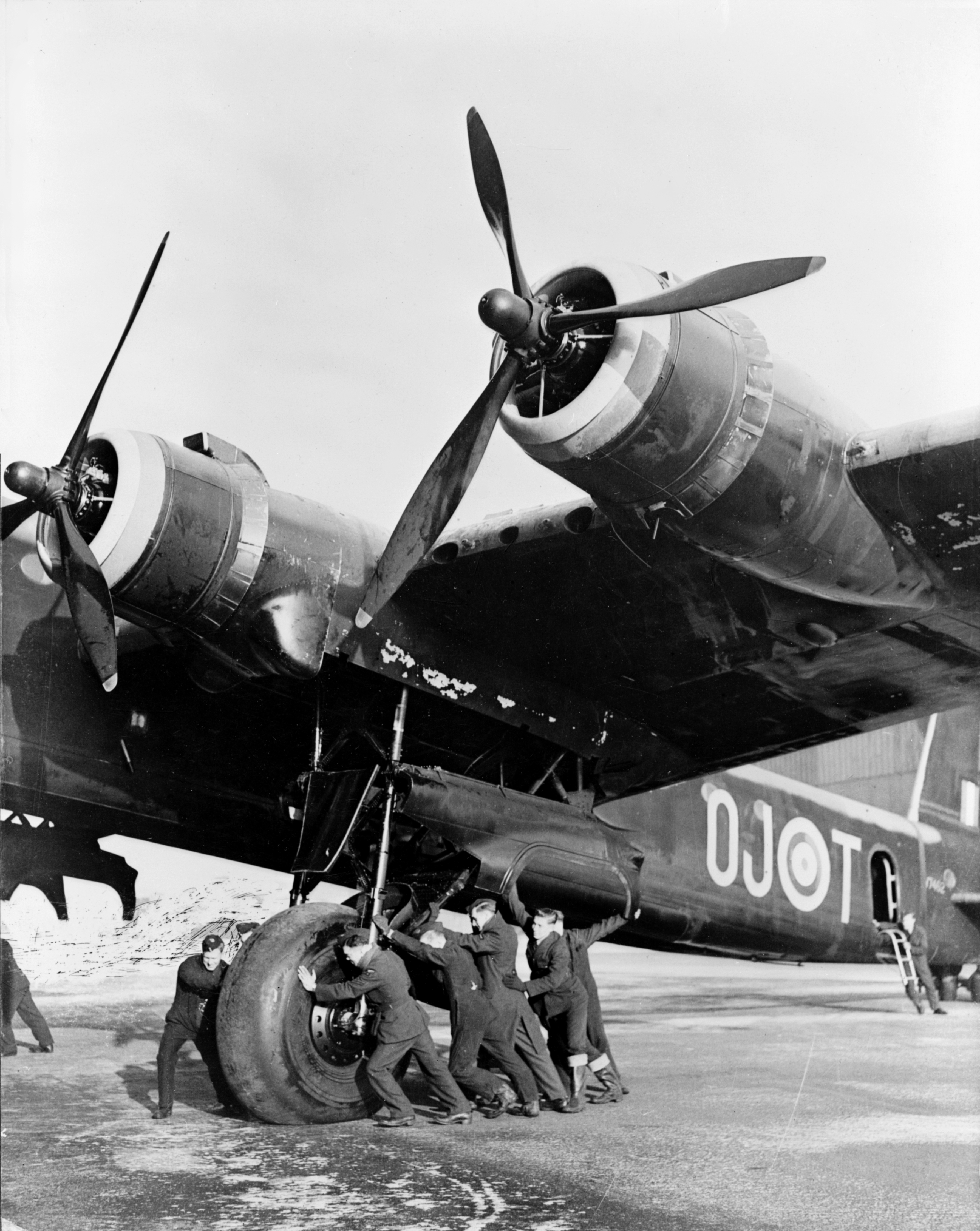 Royal Air Force ground staff pushing a Short Stirling Mk.I ("OJ-T") from No. 149 Squadron RAF out for overhaul.